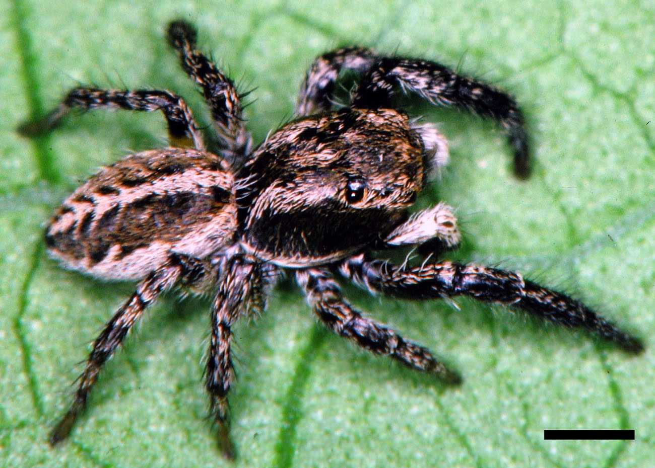 Male Pellenes peninsularis (formerly Pellenes wrighti) jumping spider from Minnesota, United States